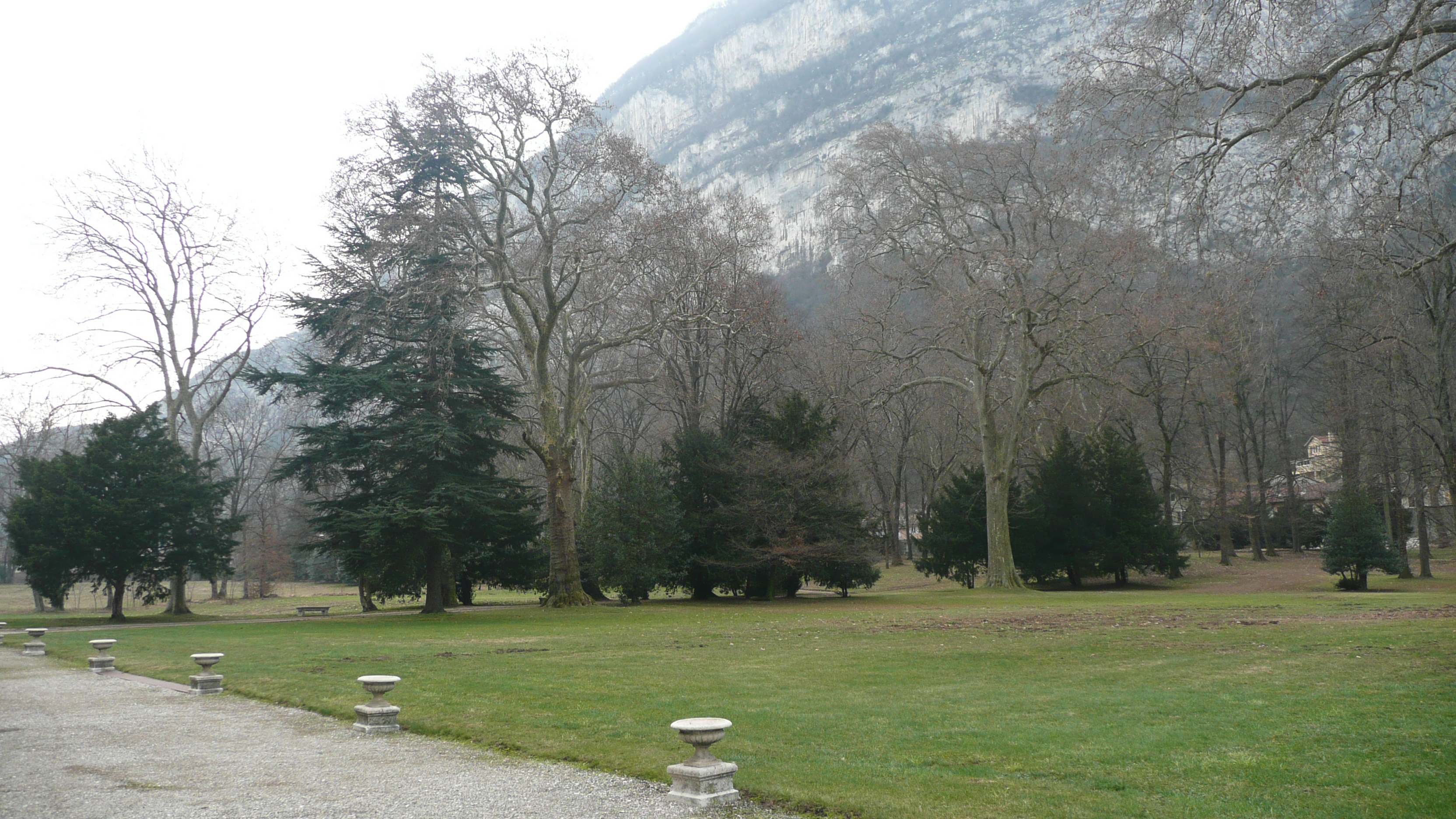 Chateau de Sassenage, near Grenoble